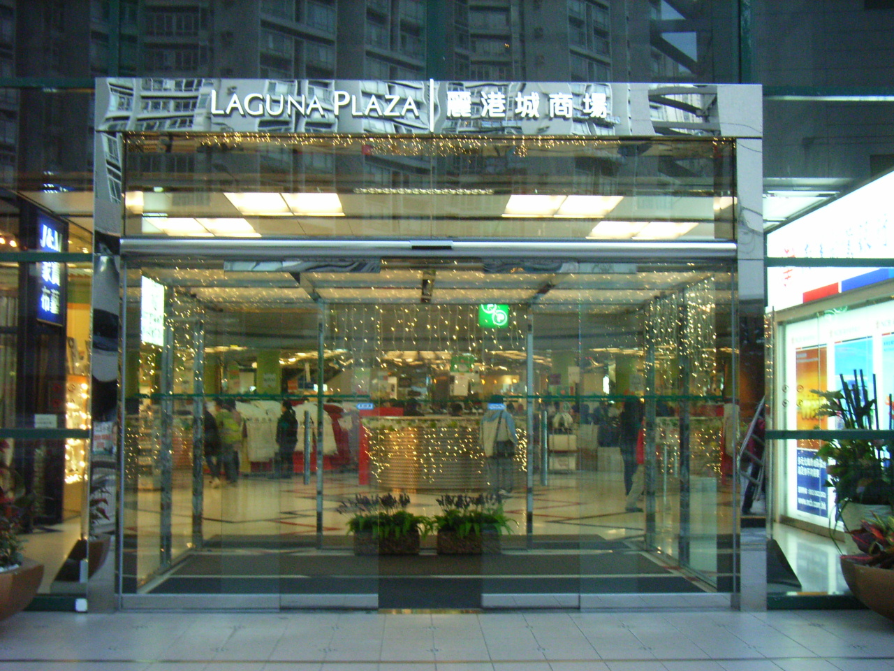 觀塘麗港城